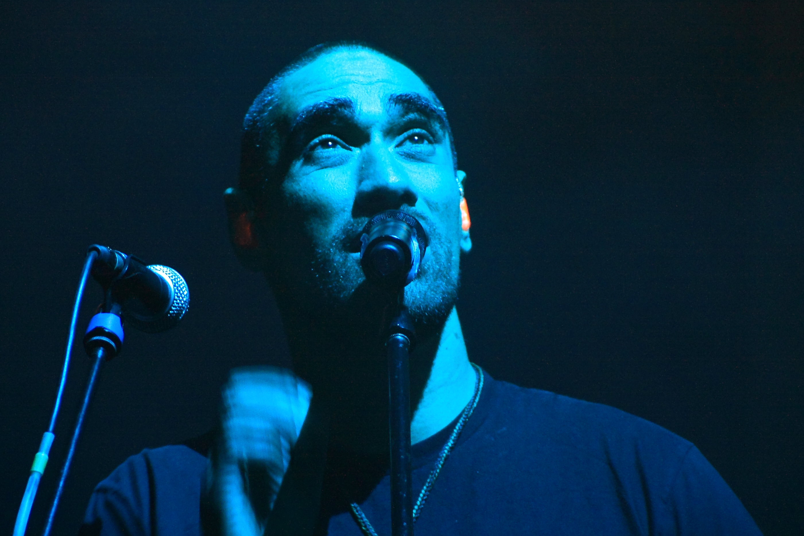 Fat Freddy’s Drop at TFF Rudolstadt, 2013.